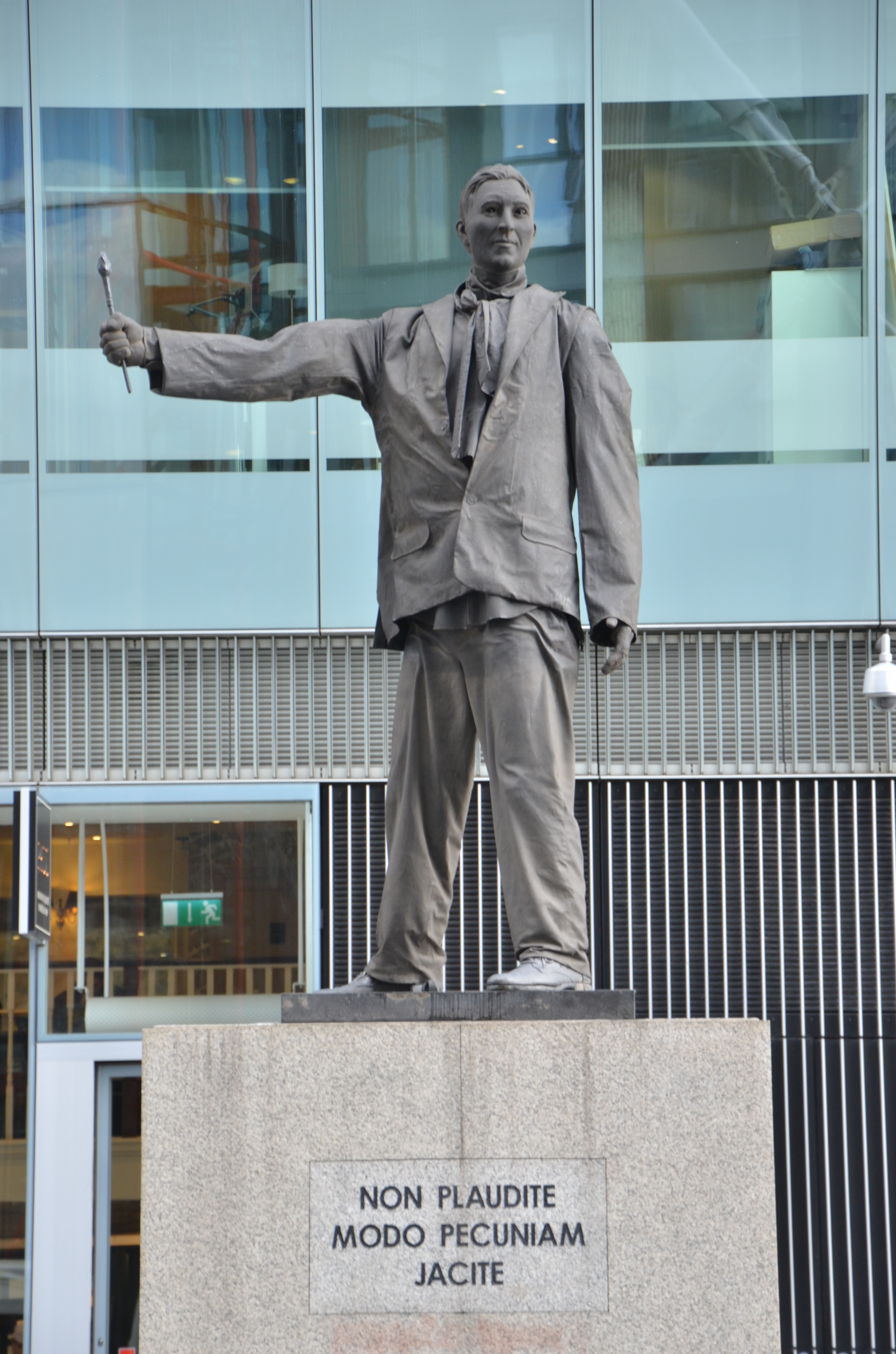 Monument to an Unknown Artist, by Greyworld, at Sumner Street, London SE1